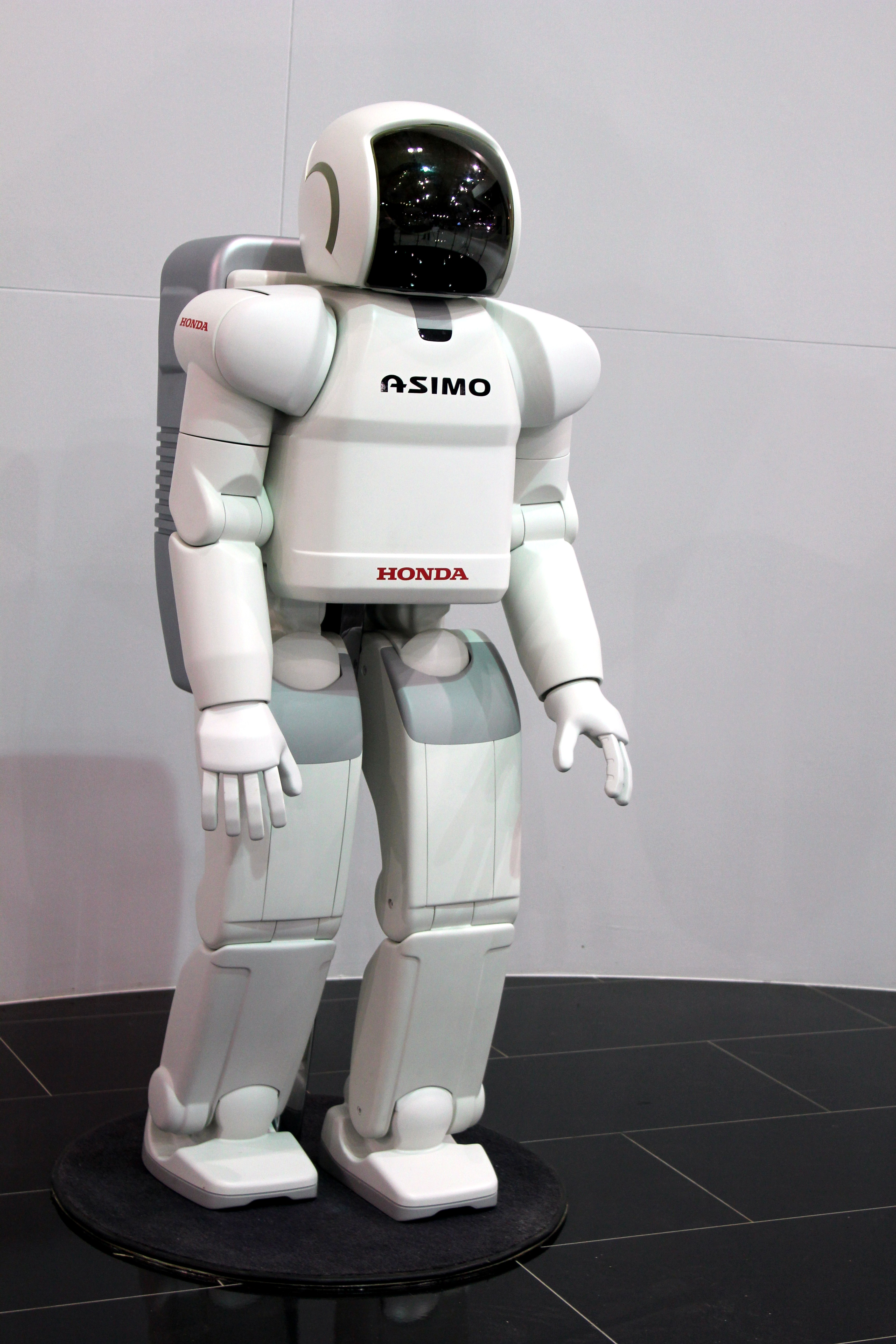 The Honda Asimo Robot at the 2011 Johannesburg International Motor Show